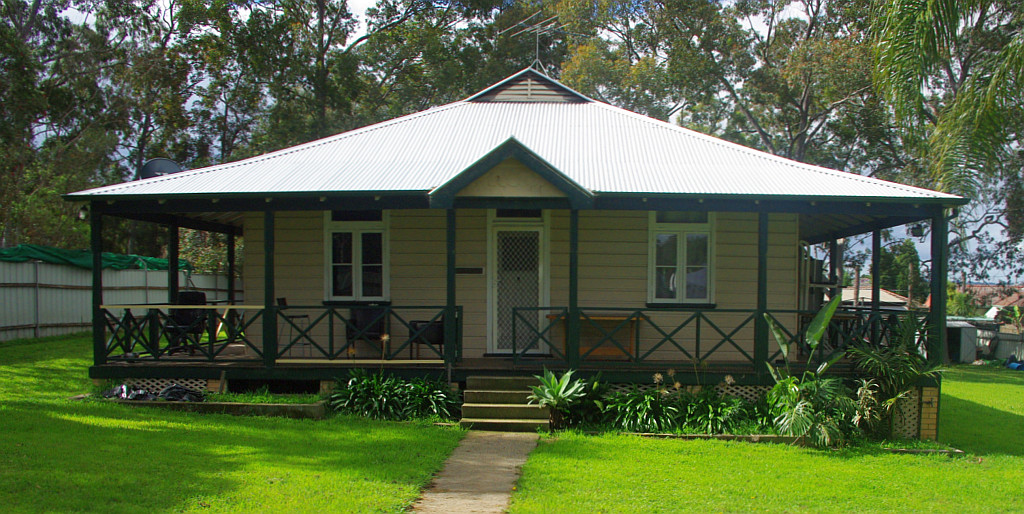 The cottage, Drumtochty,, -Grantham Heritage Park Seven Hills NSW after being restored. Occupied by park supervisor and family.